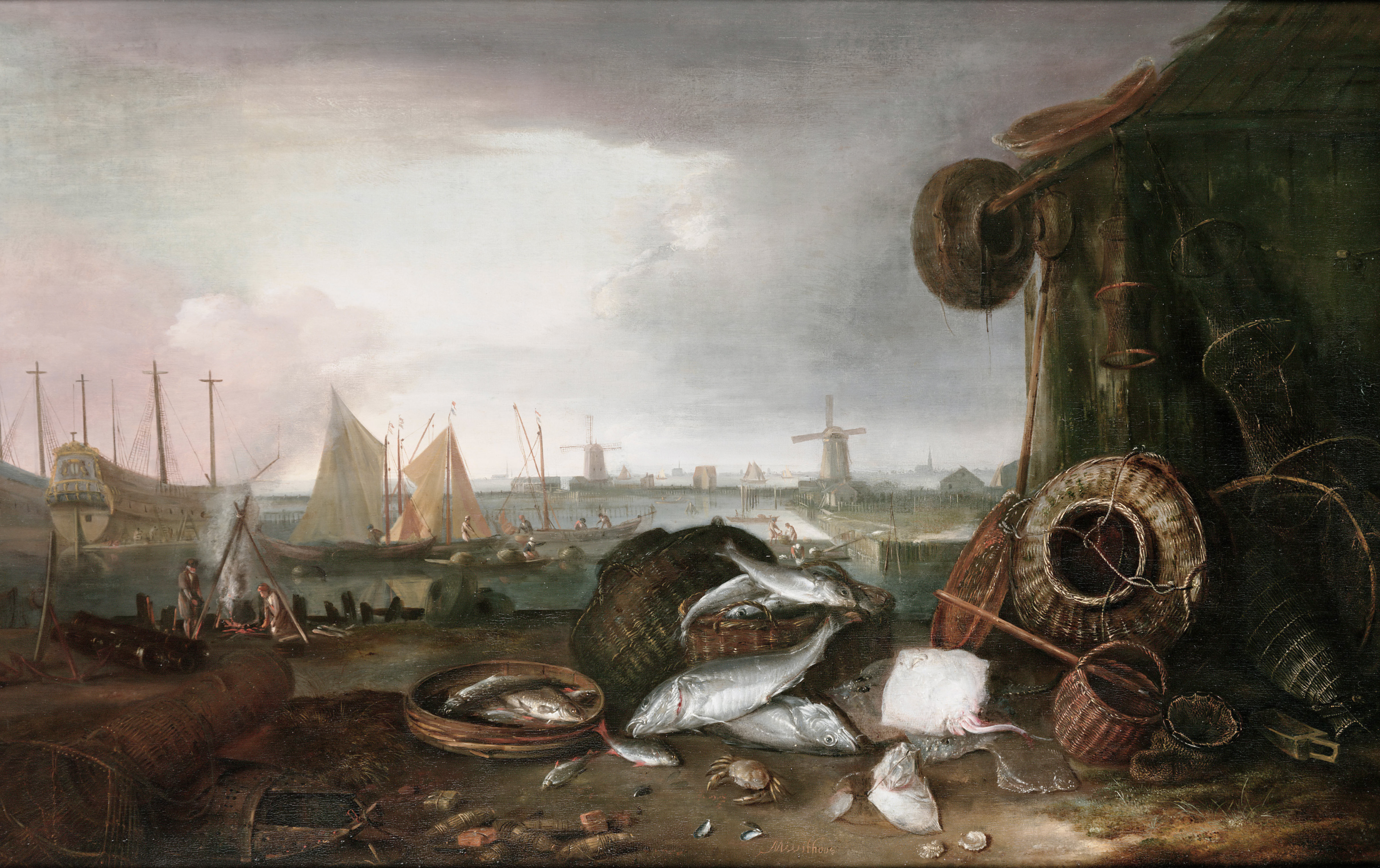 This image has been artificially brightened and may not represent the original.